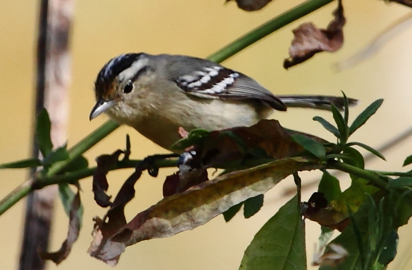 Black-capped Antwren (Female) at Dourado - SP - Brazil